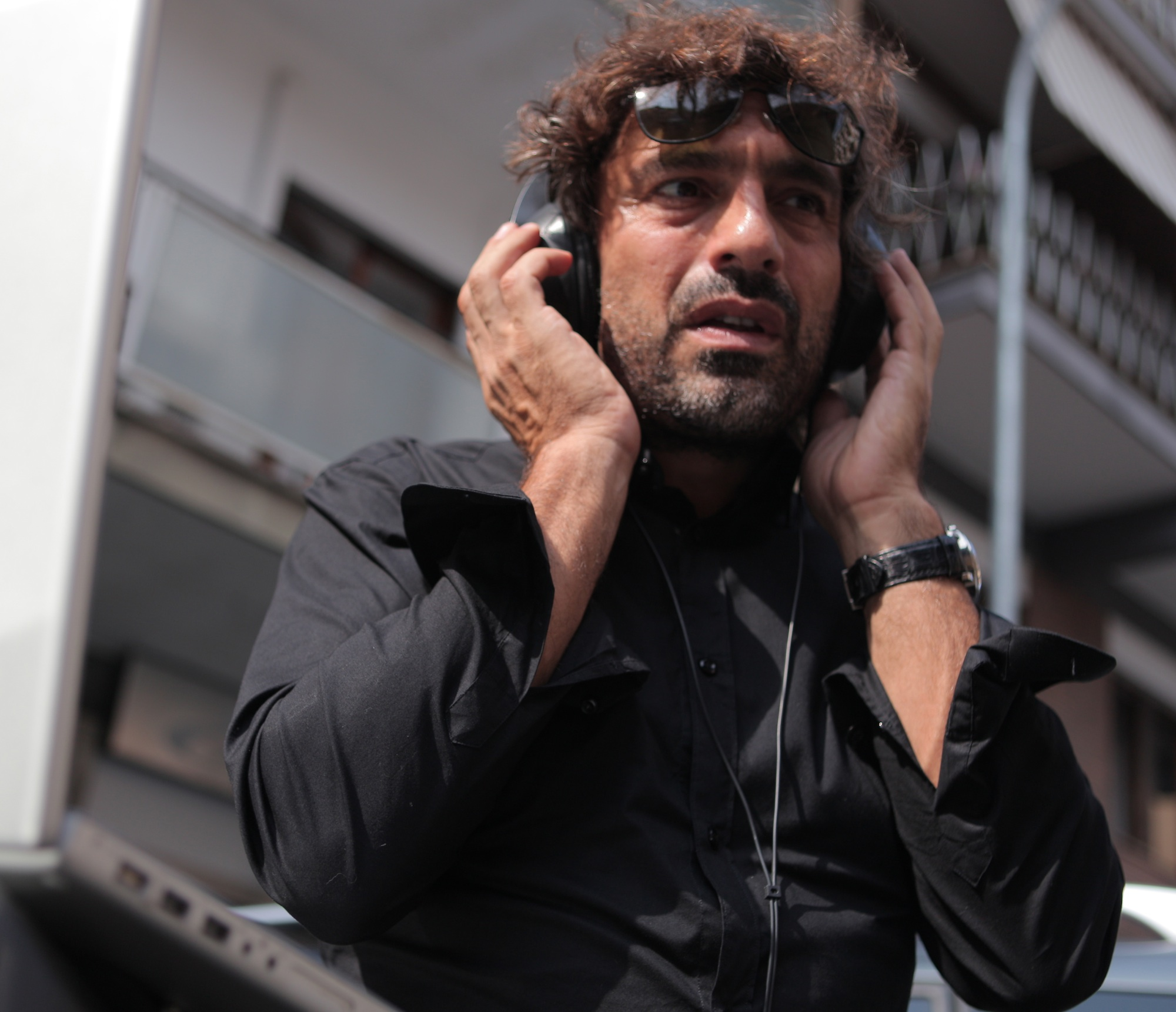 Stefano Veneruso